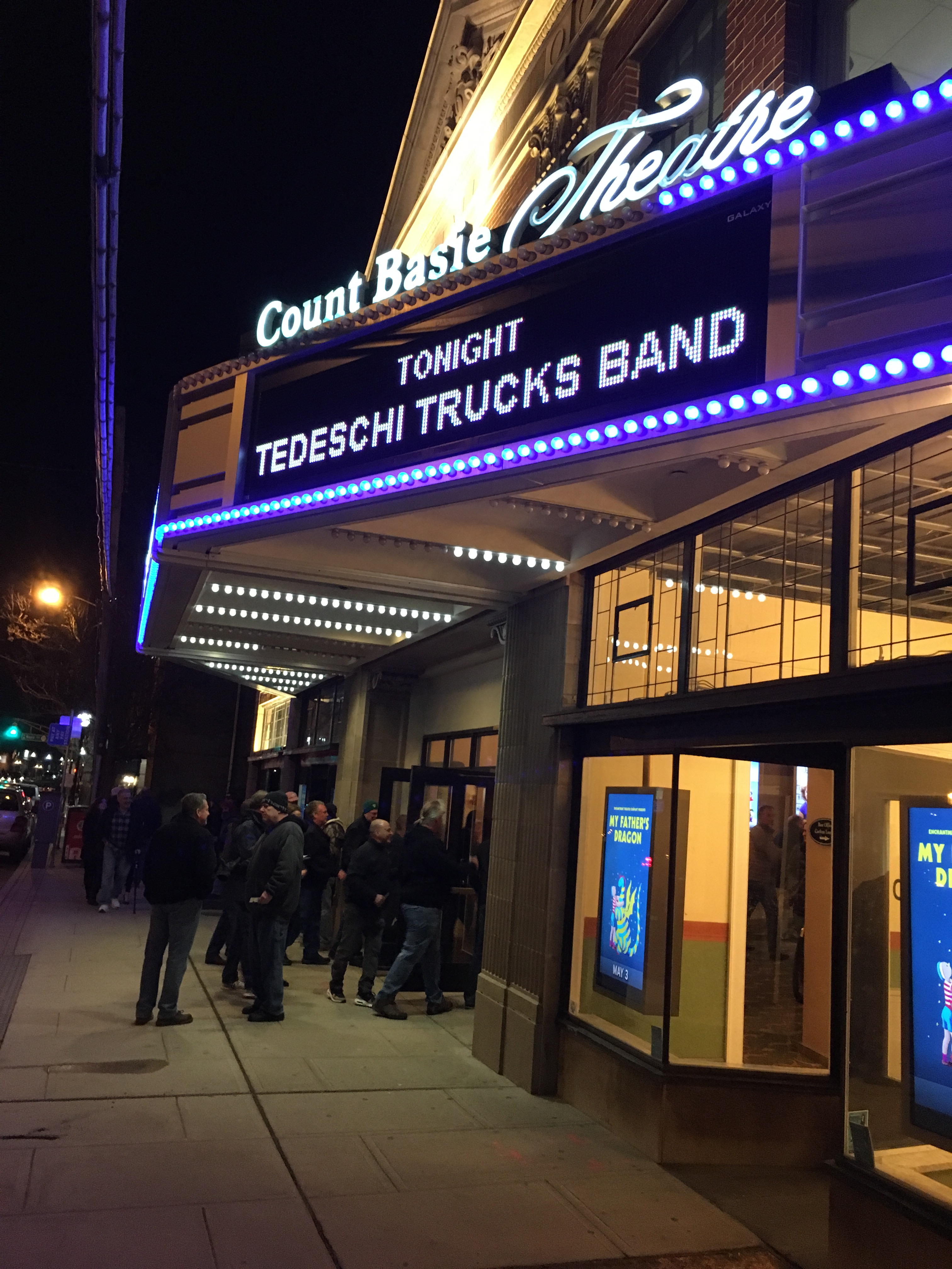 Marquee showing the Tedeschi Trucks Band appearing at the Count Basie Theatre in Red Bank, New Jersey.